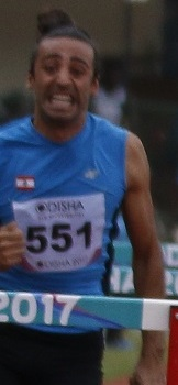 Athletes during 22nd Asian Athletics Championships in Bhubaneswar.